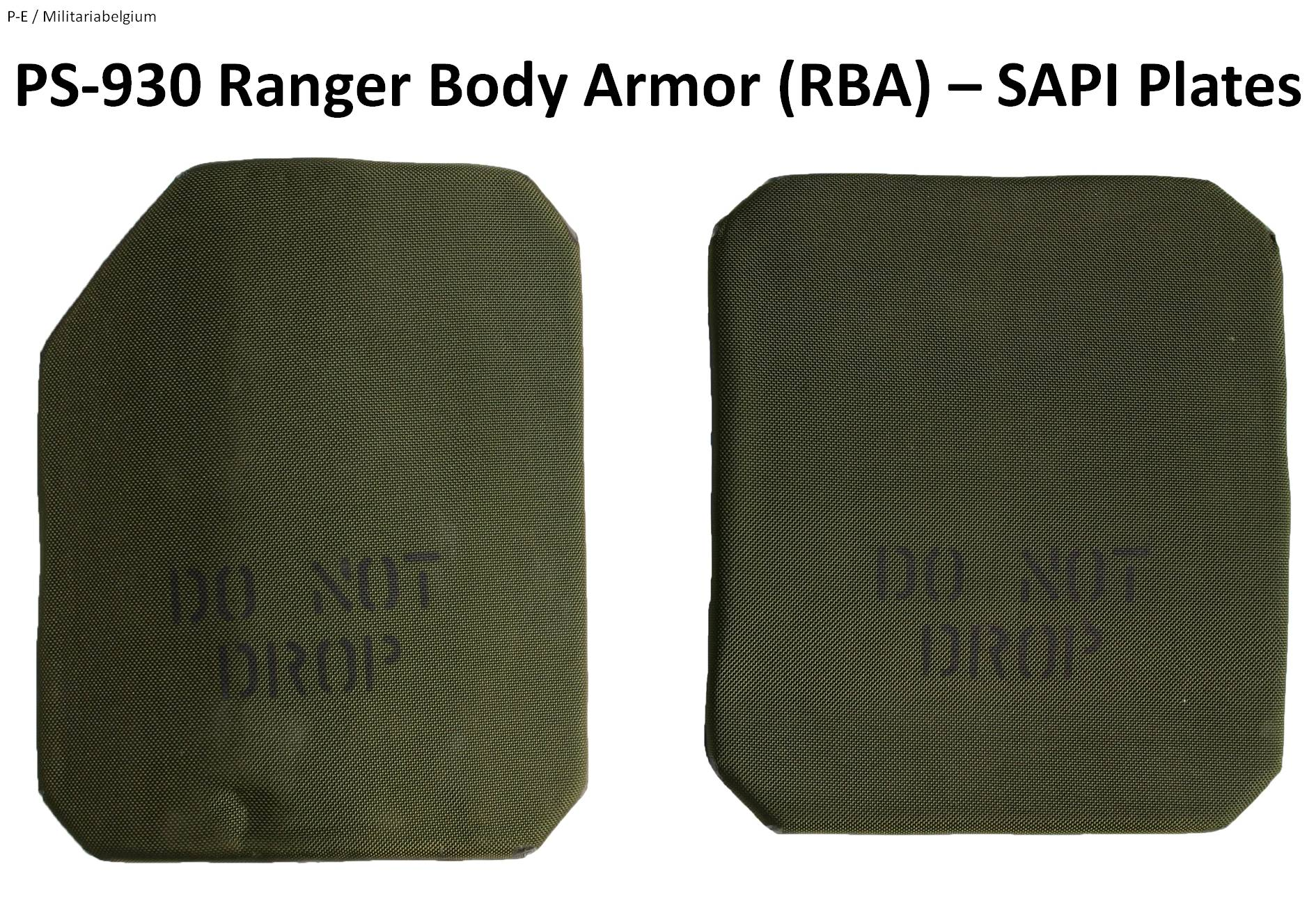 Detail of the two Small Arms Protective Inserts (ceramic plates) of the Ranger Body Armor PS-930 that offer a protection against 30 caliber ball.